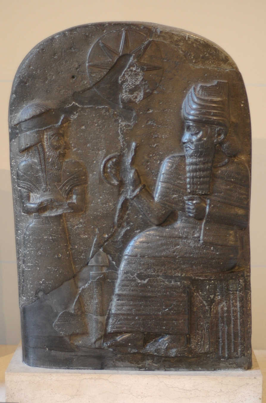 Babylonian stele usurped by an Elamite king. Basalt, 12th century BC. From Susa.